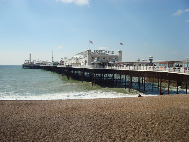 Brighton Pier